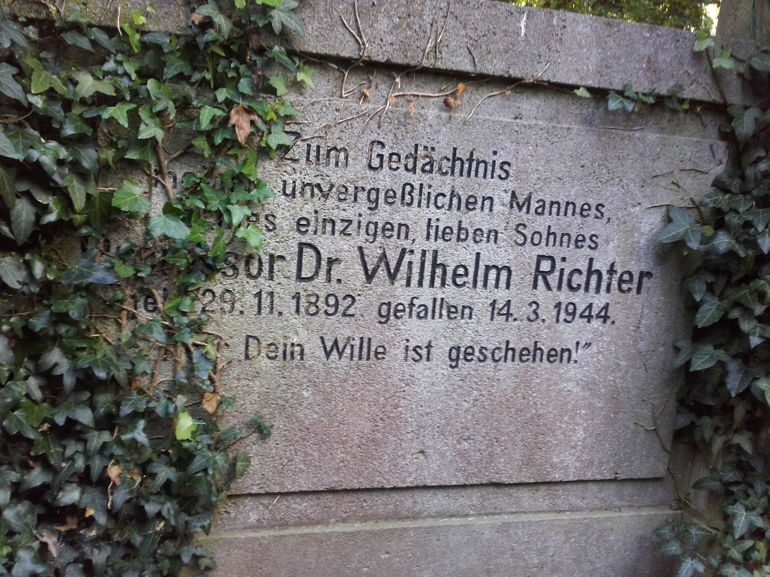 Plaque for german dermatologist Wilhelm Richter at the cemetery of Geltow